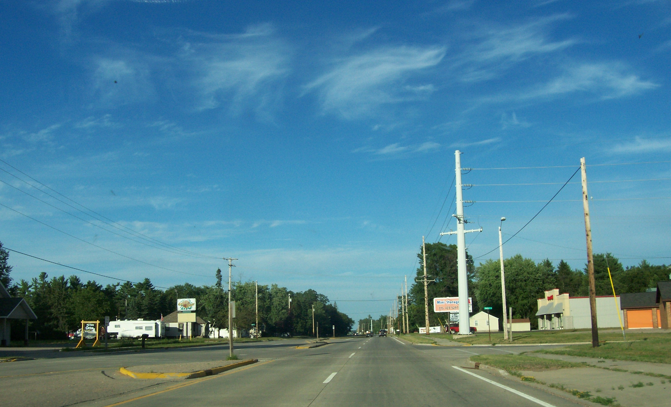 Traveling east on Wisconsin Highway 54 in Biron, Wisconsin.